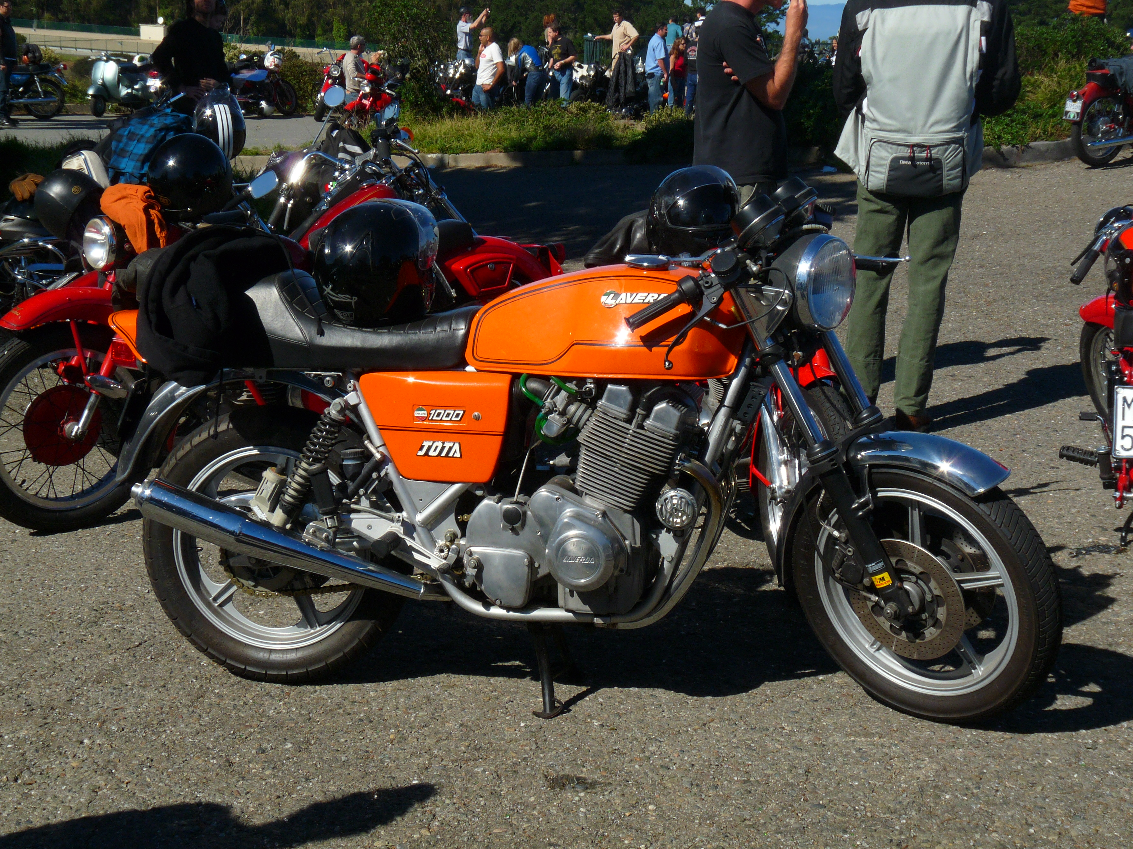 Laverda_1000_Jota